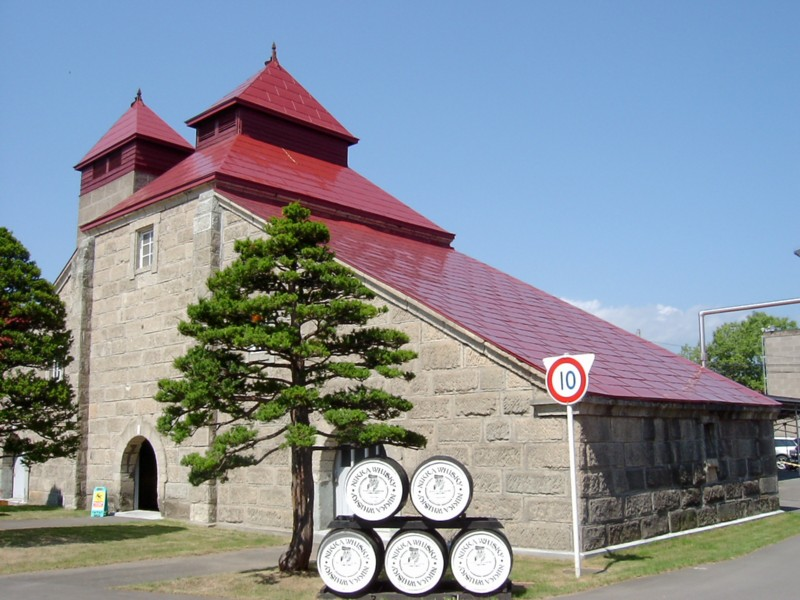 Author is John Hawkins.